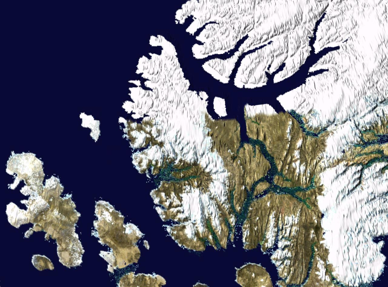 Axel Heiberg Island, Canadian Arctic Archipelago. NASA Blue Pearl data